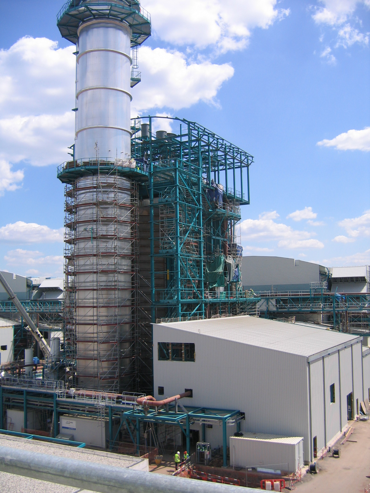 Les nouvelles tranches à cycle combiné de la centrale en phase de construction en 2009